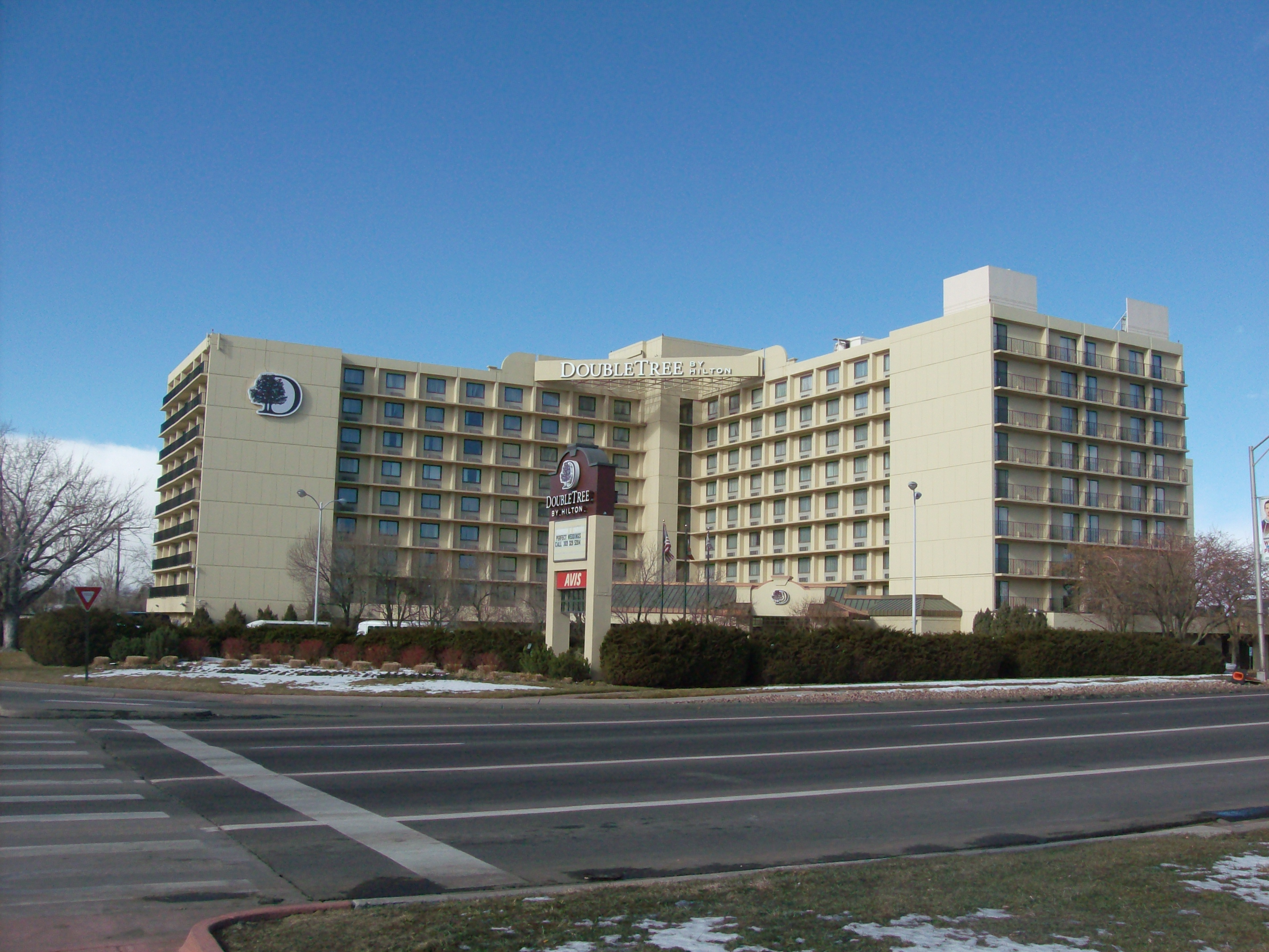 DoubleTree by Hilton Hotel Denver